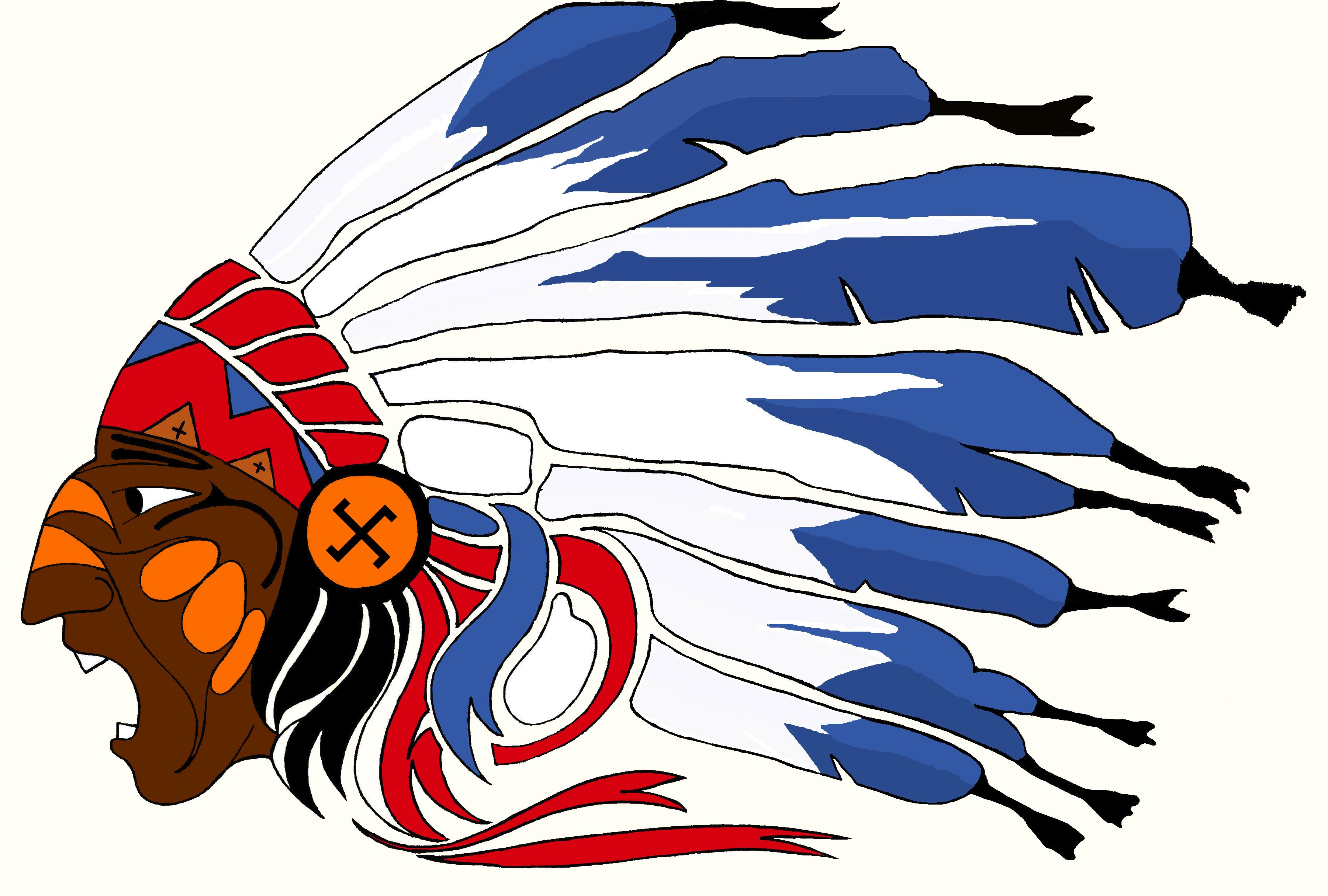 Squadron Insignia of the Lafayette Escadrille, Used by the 103d Aero Squadron (Pursuit) and the 94th Pursuit Squadron of the US Army Air Corps Source: New England Air Museum Source: NASM